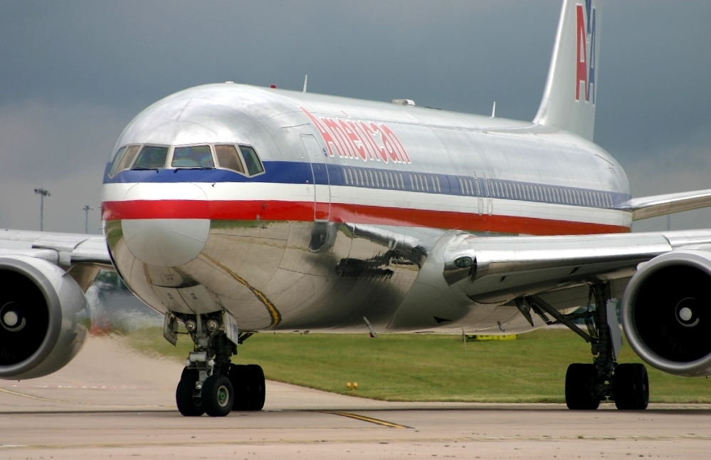 American Airlines B-767